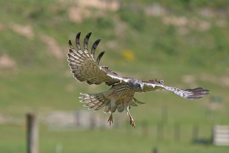 Circus approximans, Swamp Harrier, adult male, Rotorua, New Zealand. Bird may be about 7 years old.